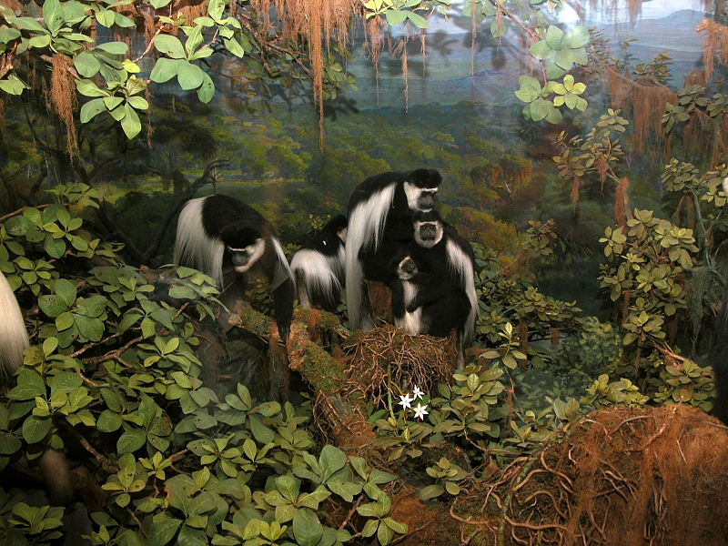 American Museum of Natural History, New York, USA